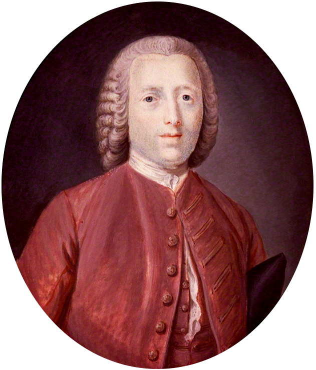 Portrait of John Turberville Needham (1713-1781)